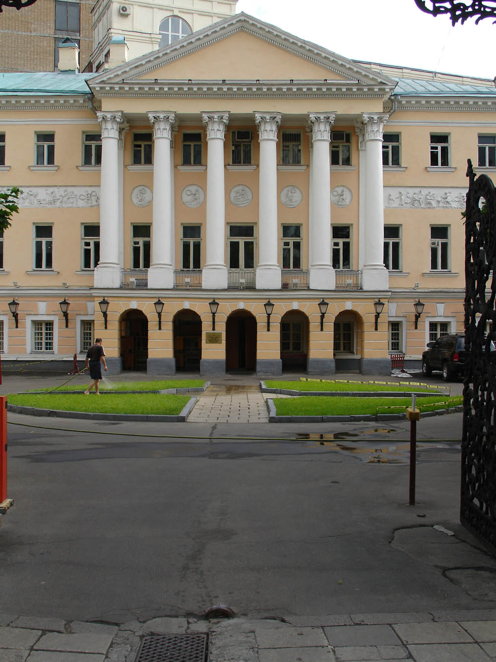 Bolshoy Tolmachevsky Lane, Moscow